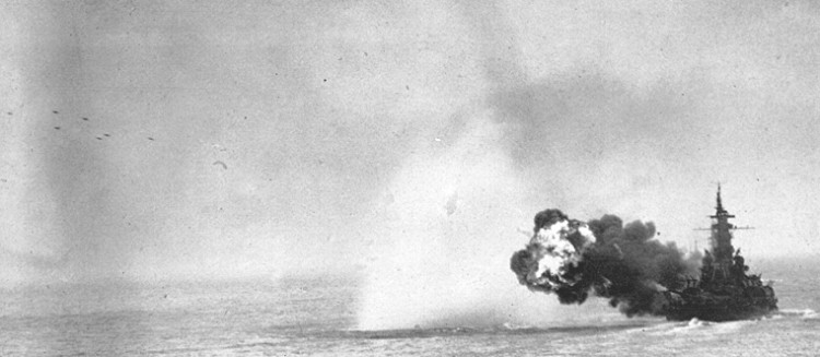 USS Massachusetts firing a full main battery salvo at Kamaishi on 9 August 1945